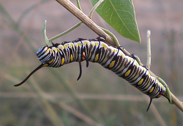 Caterpillar near Tàrrega, Catalonia.